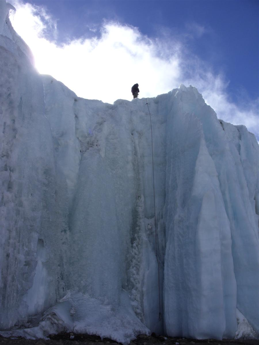 Lava_Expeditions_Credner_Glacier_7.jpg